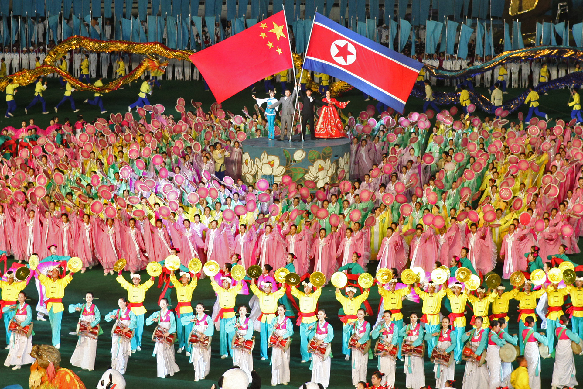 Close relationship between DPRK and China is visible. Neverending friendship between Soviet Union and North Korea is forgotten. Please note that the stars arrangement on Flag of China is wrong.